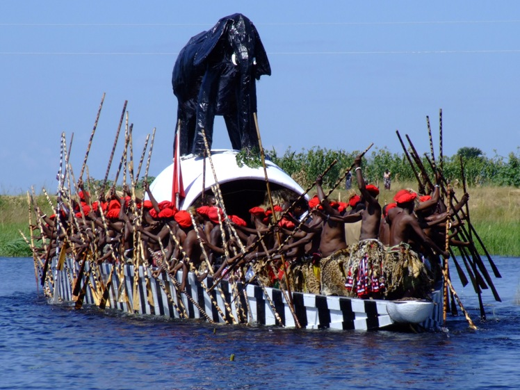 Royal barge, Barotseland, Zambia